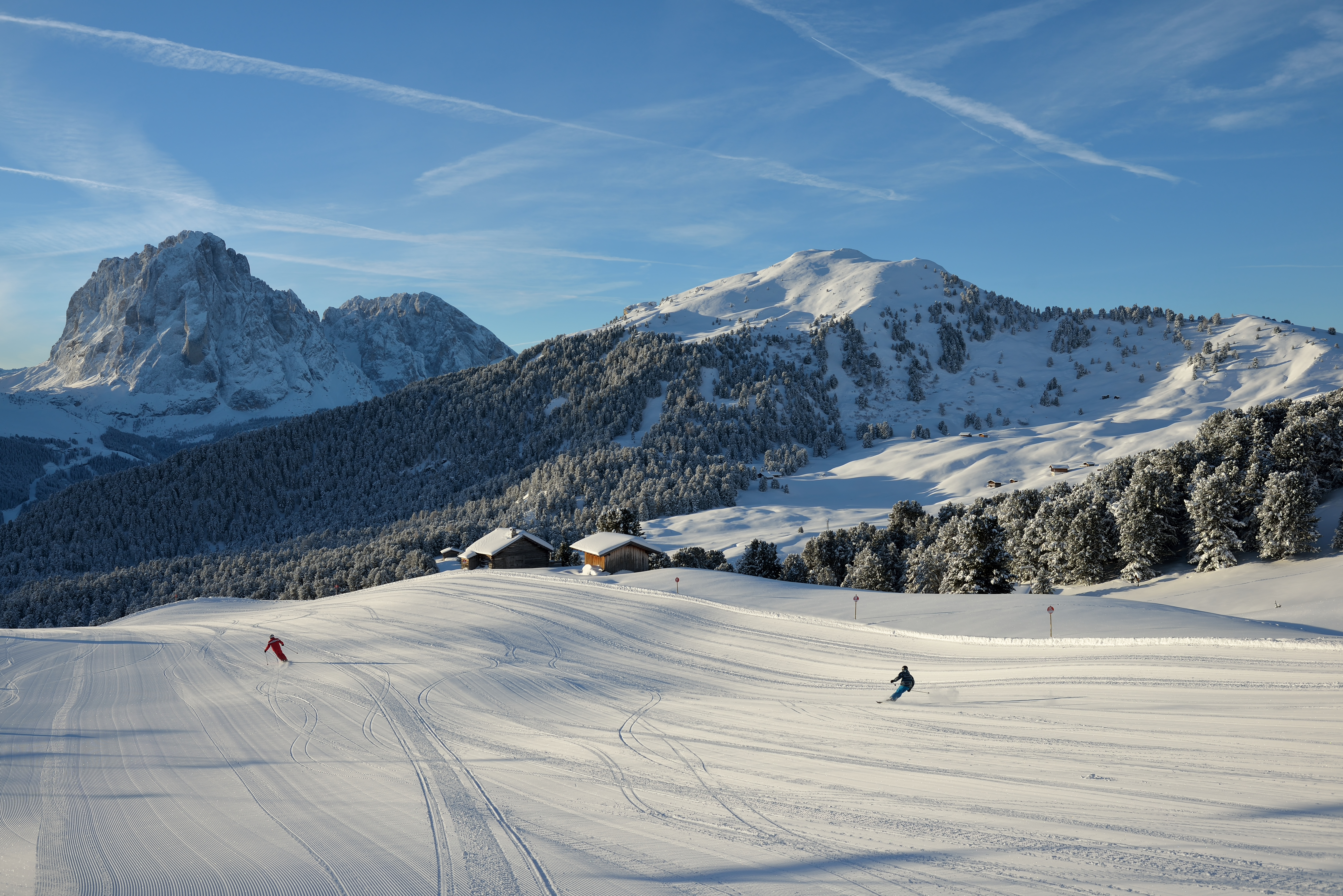 Groomed skirun from mount Seceda in Gröden